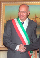 Gabriele Albertini, mayor of Milan